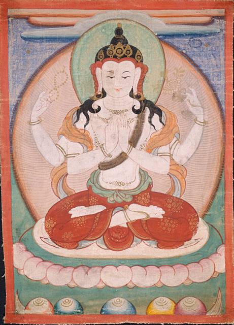 Nepal or Tibet, 19th century Paintings Mineral pigments and gold on cotton cloth 8 7/8 x 6 3/8 in. (22.5 x 16.2 cm) Gift of David L. and Shirley A. Sherwood (AC1992.69.2) South and Southeast Asian Art